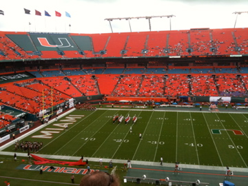 Sun Life Stadium before a Miami Hurricanes game